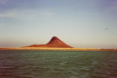 Ras Siyan on the African side of the Strait of Bab el-Mandeb.